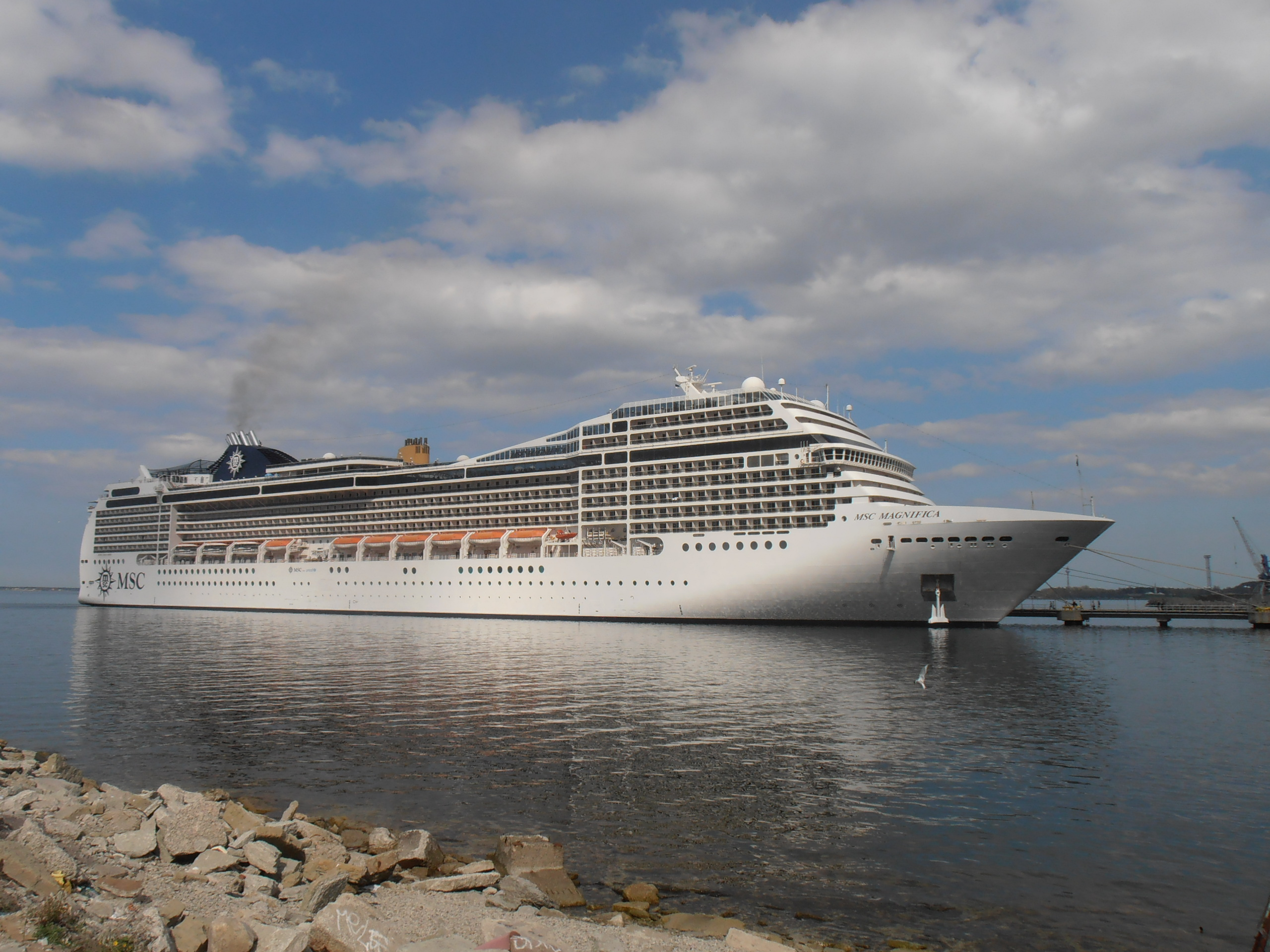 Cruise ship MSC Magnifica at Pier 24 in Tallinn 14 May 2013